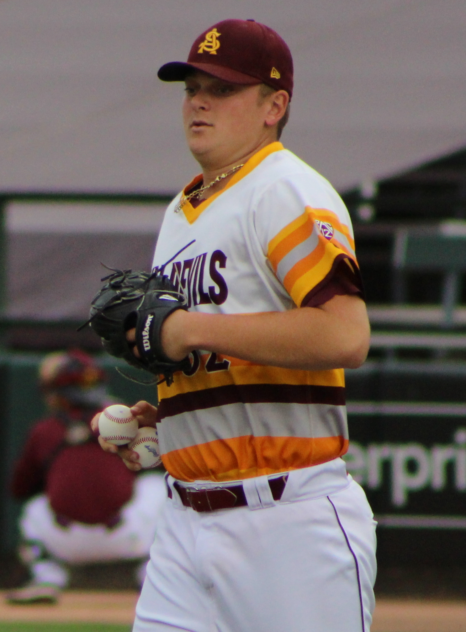 Ryan Burr takes the pitching mound during warm up at Arizona State University on 14 May, 2015.